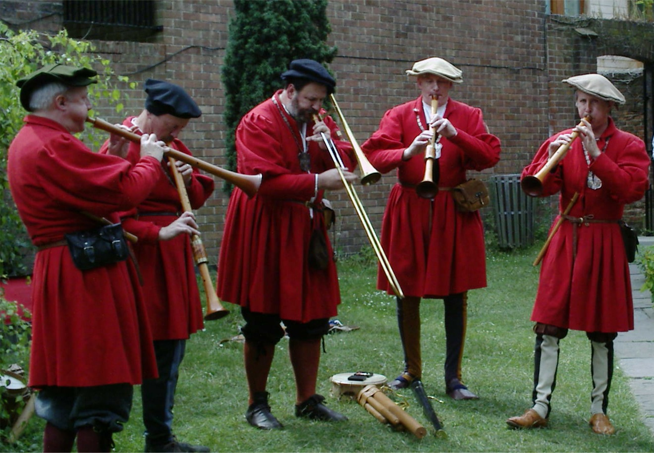 York Waits, photographed by A Garrod, 2006